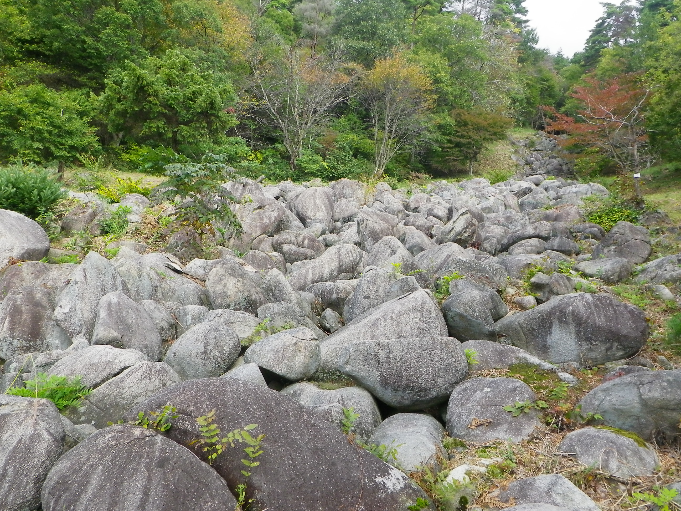 Kui gankai